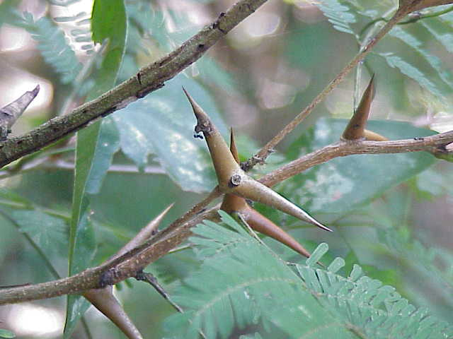 Species: Acacia collinsii Family: Fabaceae Image No. 4